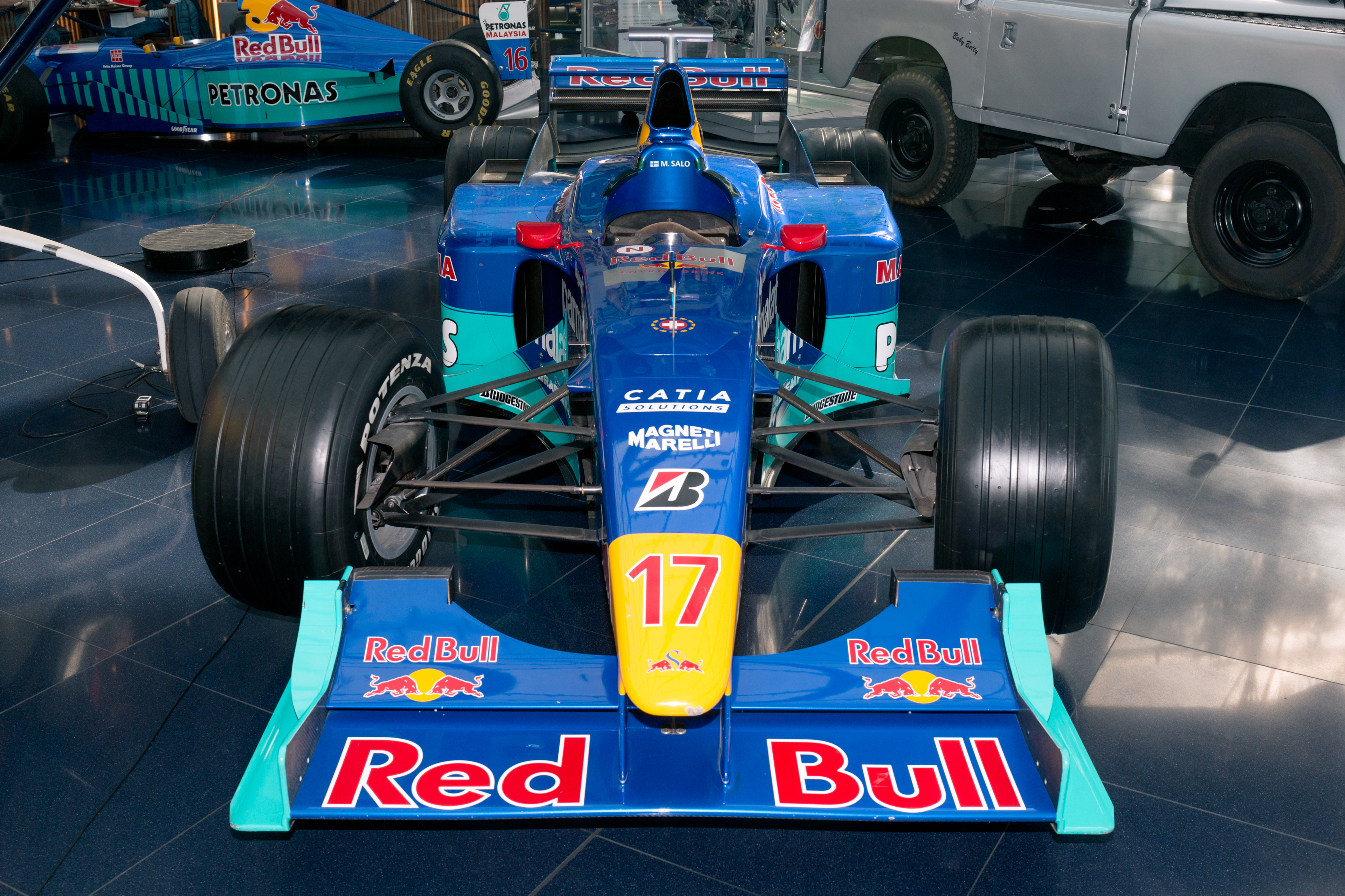 Hangar-7: Sauber C19